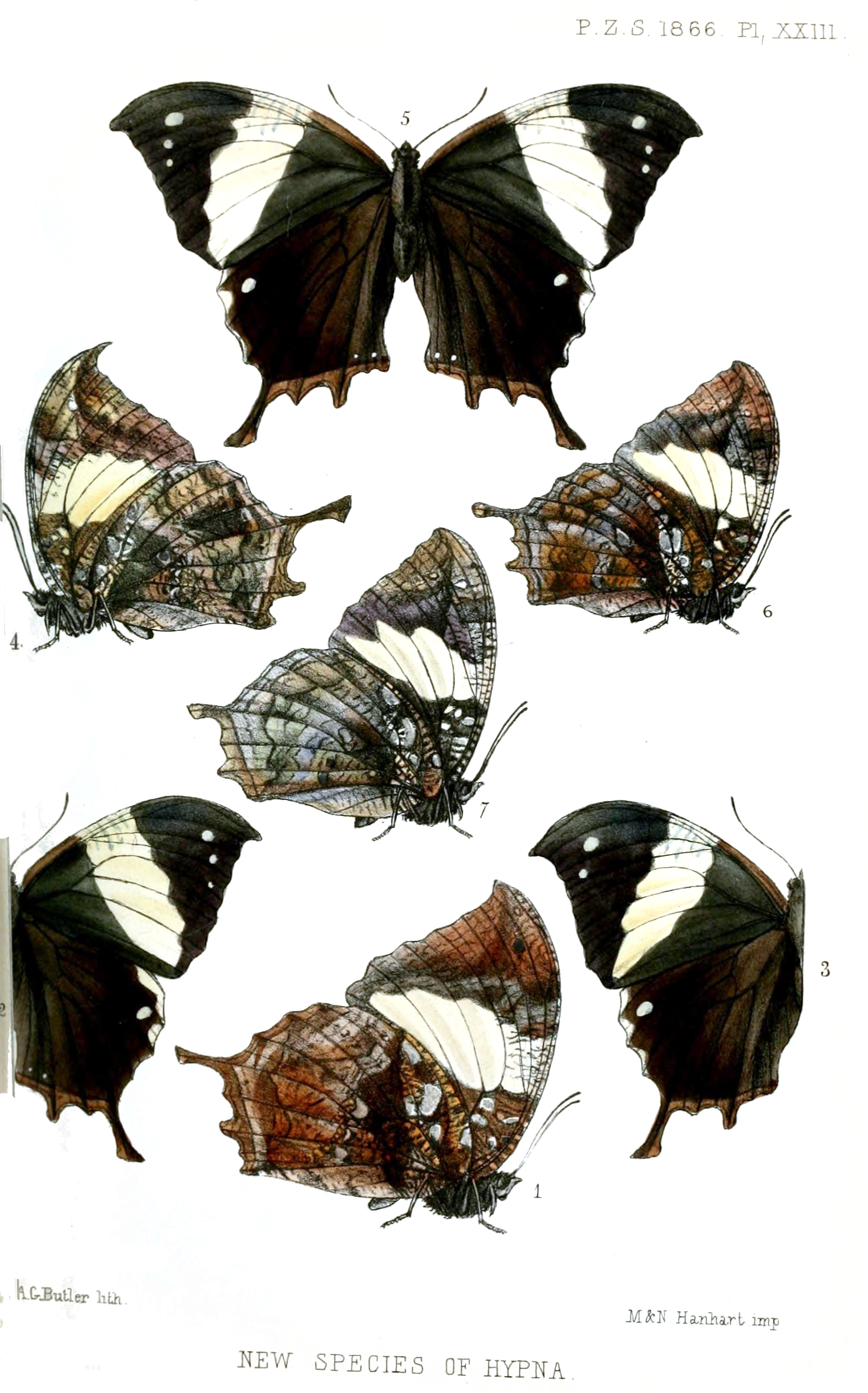 Hypna clytemnestra subspecies and forms